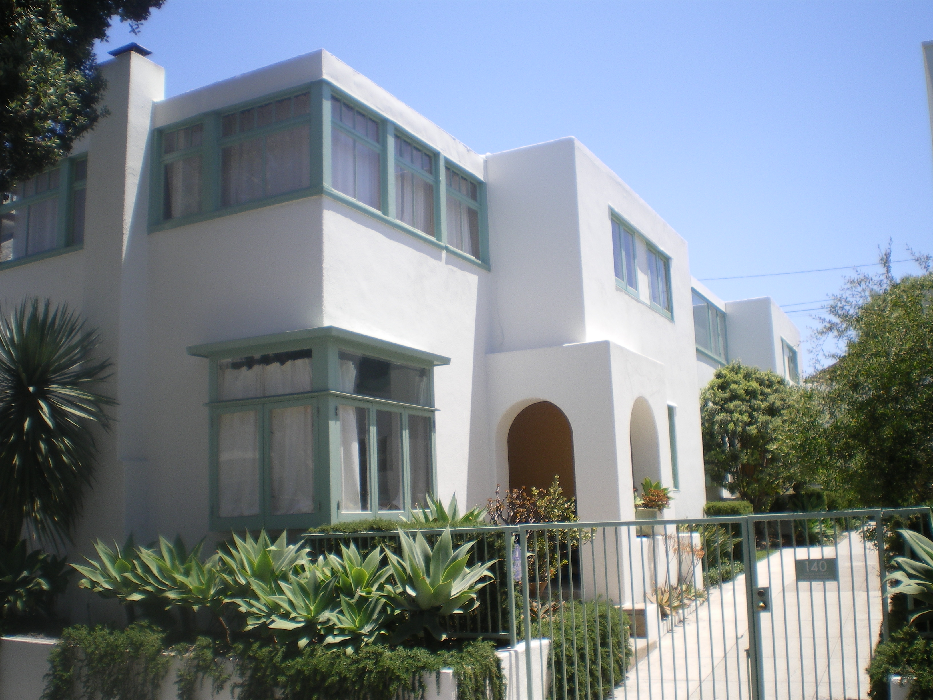 Horatio West Court, 140 Hollister Ave., Santa Monica, California